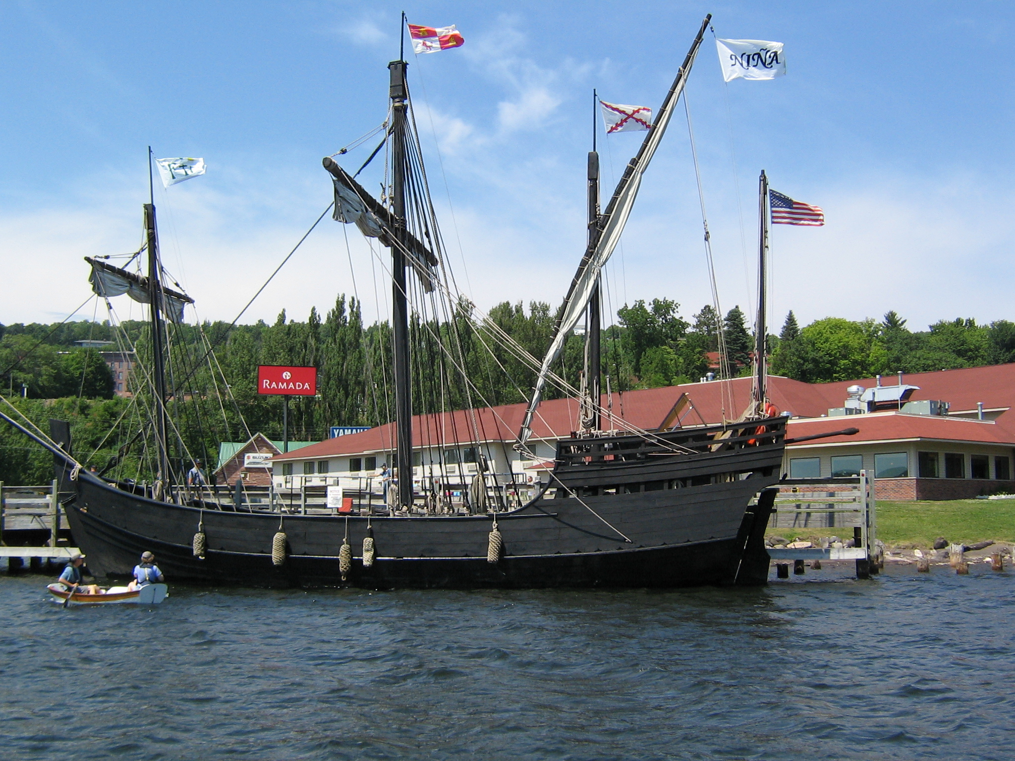 Replica of the Niña (Christopher Columbus's ship). Picture taken in Hancock, Michigan, USA.